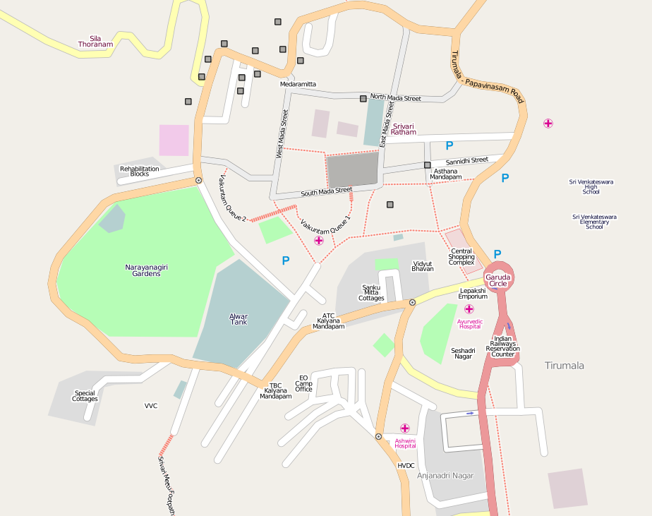 This map of Tirumala Tirupati was created from OpenStreetMap project data, collected by the community. This map may be incomplete, and may contain errors. Don't rely solely on it for navigation.